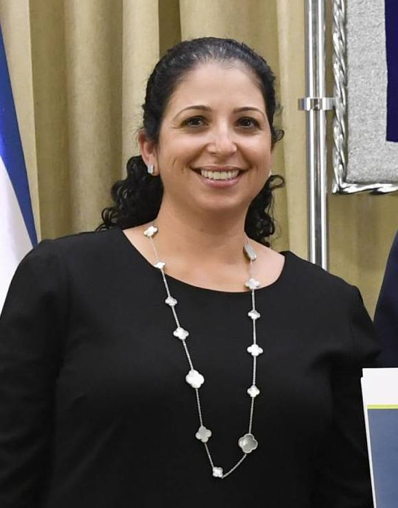 President of Israel, Reuven Rivlin, and his wife hosting a special session entitled "Manhigut VeMugbalut" ("Leadership and Disability"), in which a study and survey of public attitudes towards leadership of people with disabilities were presented. Tuesday, January 16, 2018. Photo credit: Haim Tzach / GPO.